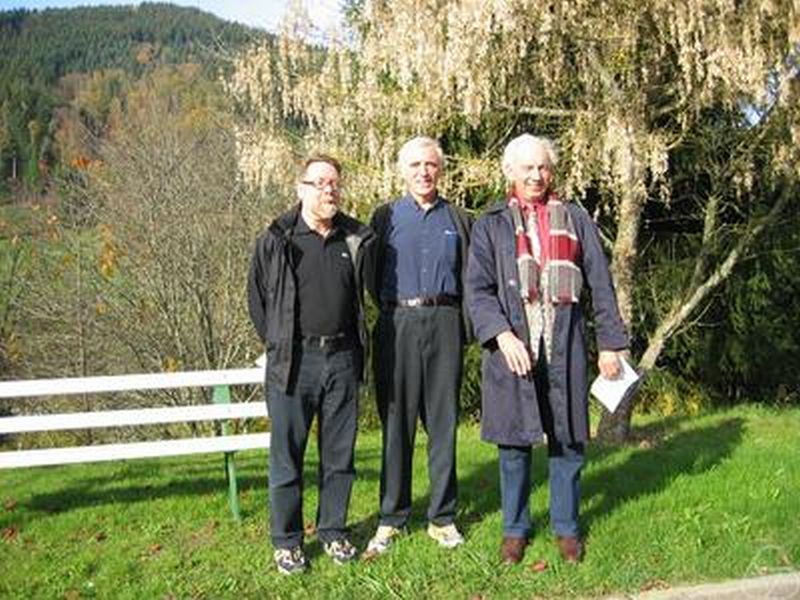 From left: Tom Archibald, Craig Fraser, Ivor Grattan-Guinness